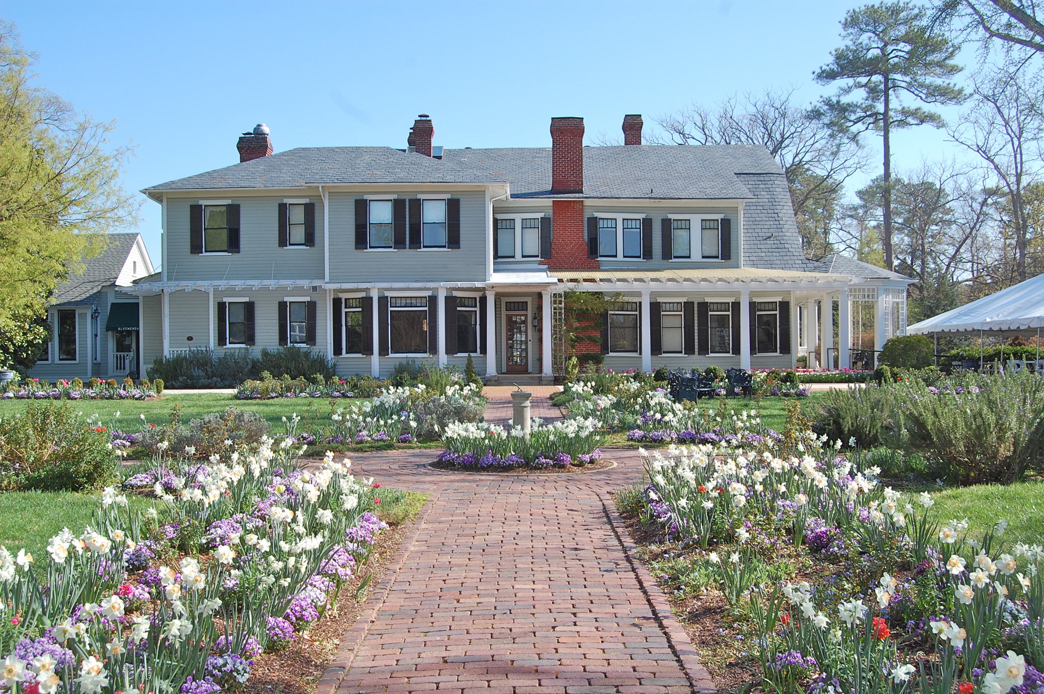 Bloemendaal, formerly the Lakeside Wheel Club and a private house, built 1894.